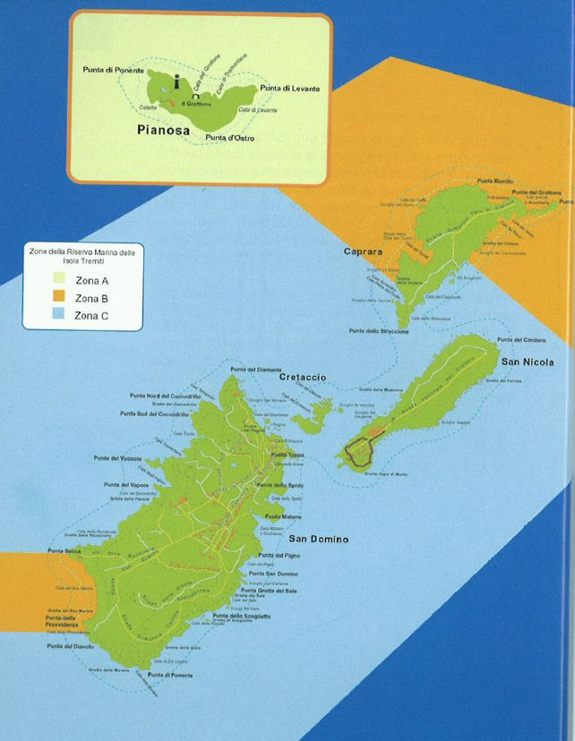 Foto of map of Gargano National park map, Sections of tremiti islands